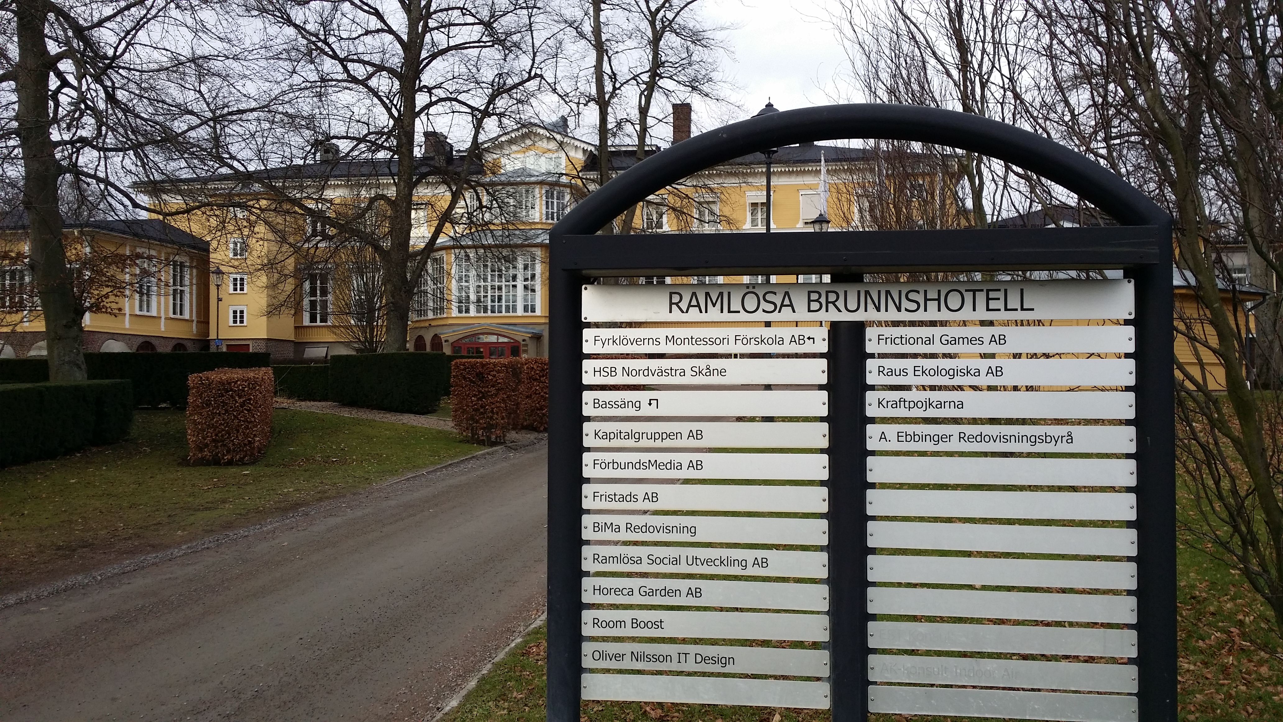 The companies that resides in Ramlösa brunnshotell in Helsingborg.